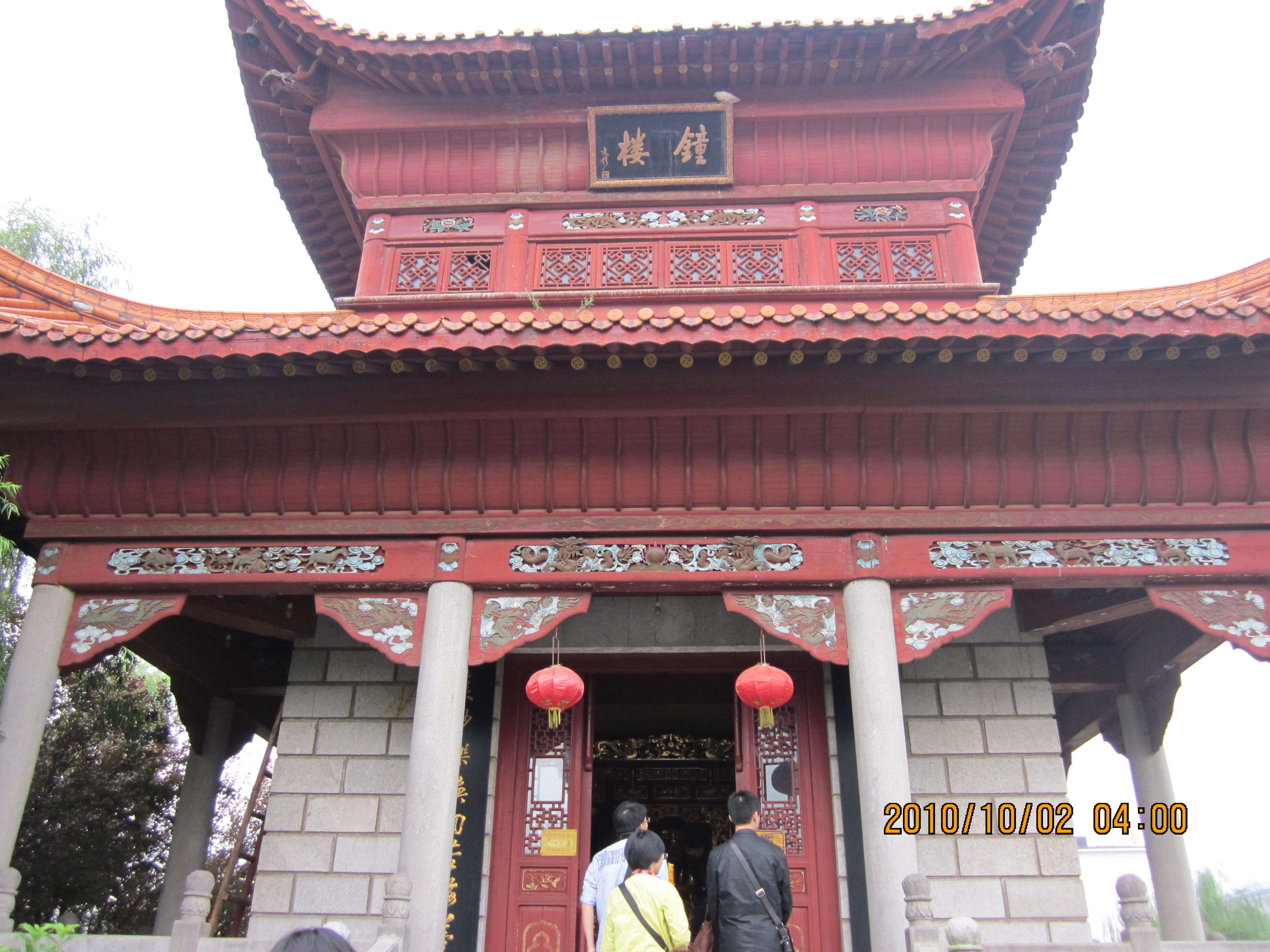 The Bell tower at Kaifu Temple, in Kaifu District of Changsha, Hunan, China.